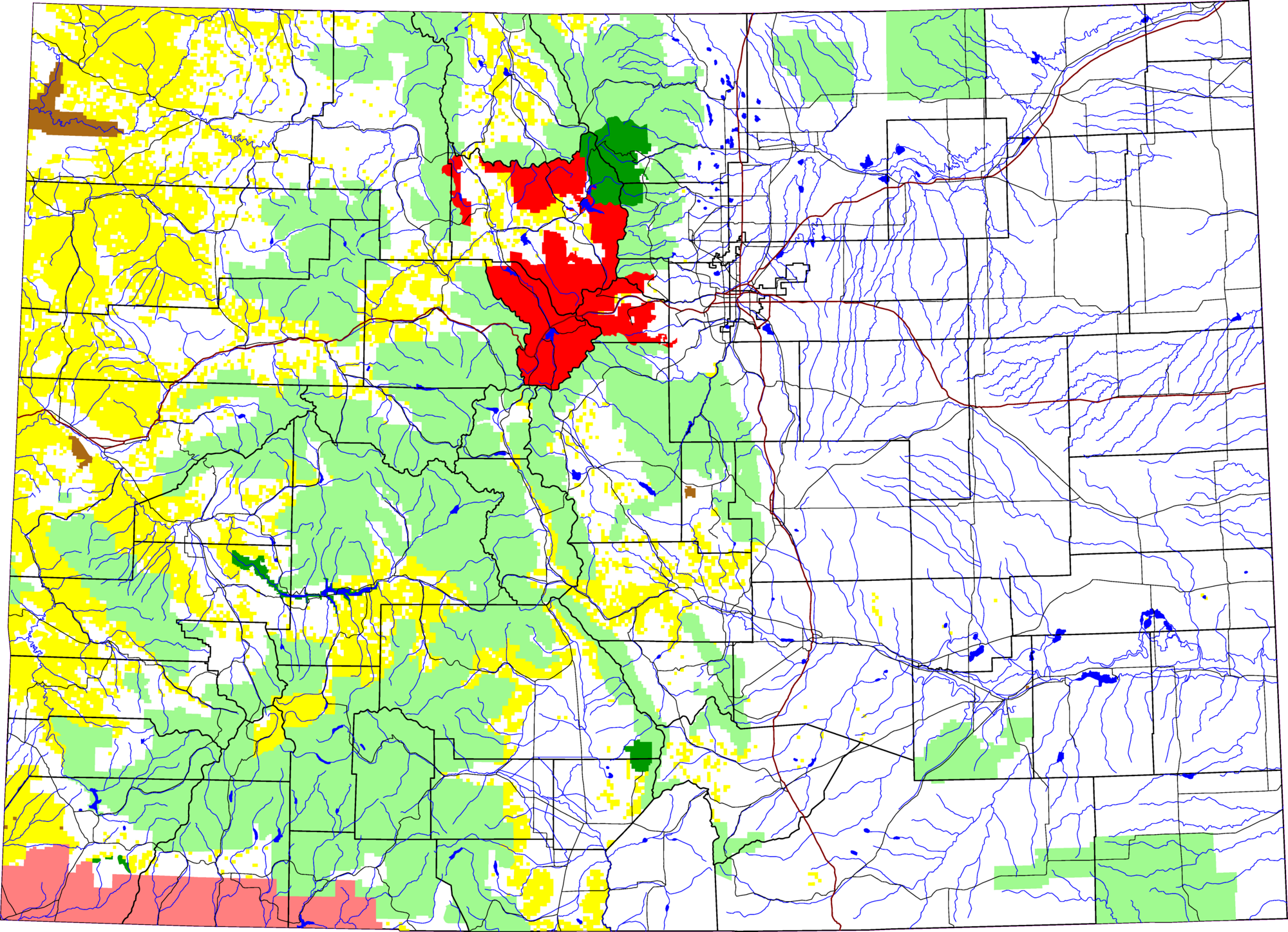 A map of Colorado, with Arapaho National Forest highlighted in red. The light green is other Forest Service land, yellow is BLM land, dark green is National Park, brown is National Monument or National Historic Site, pink is Indian reservation. The reddish lines are Interstate Highways. David Benbennick made this map with data from . The map uses the azimuthal equidistant projection, centered on (-105.7167, 39.1333) (degrees latitude, longitude). The area outside Colorado is transparent, so it should look nice on non-white backgrounds. Eventually, I will upload the 4 megabyte Metapost script I used to make this map. In the mean time, see map.mp.